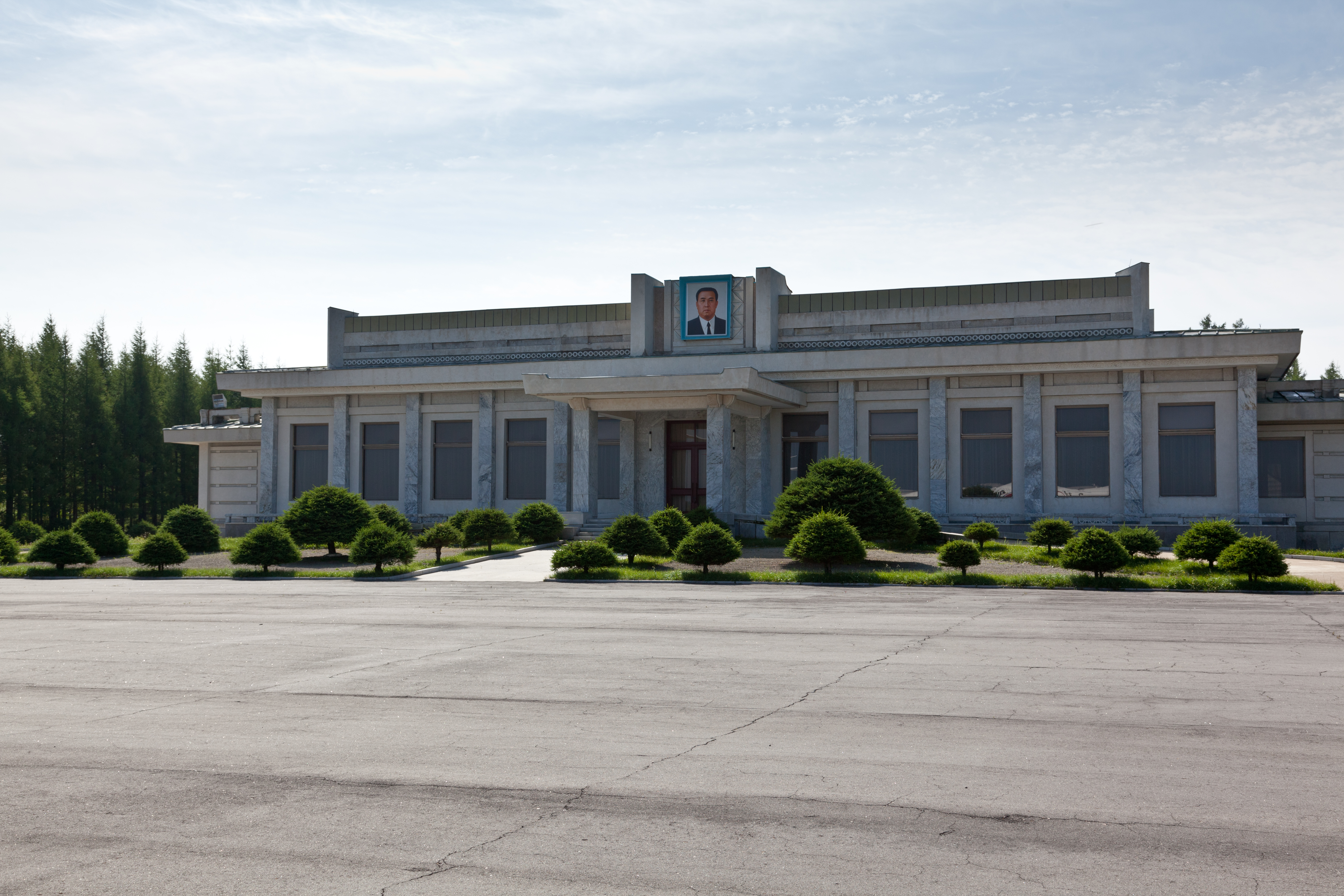 Main building at Samjiyon Airport. Waiting rooms, control tower and WC's to the far right of this.